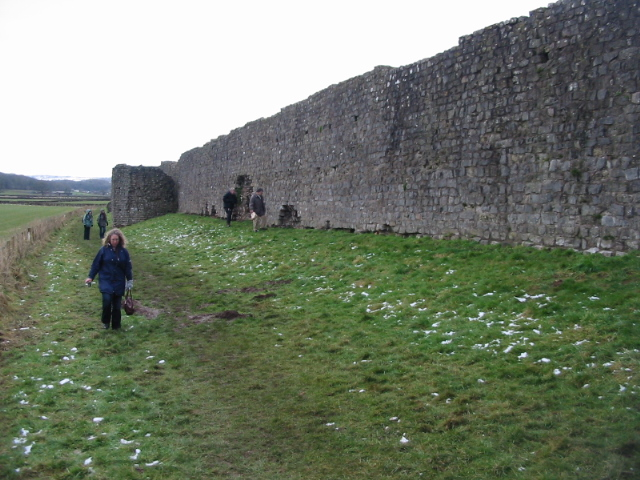 The Southern wall of the Roman city of Venta Silurum